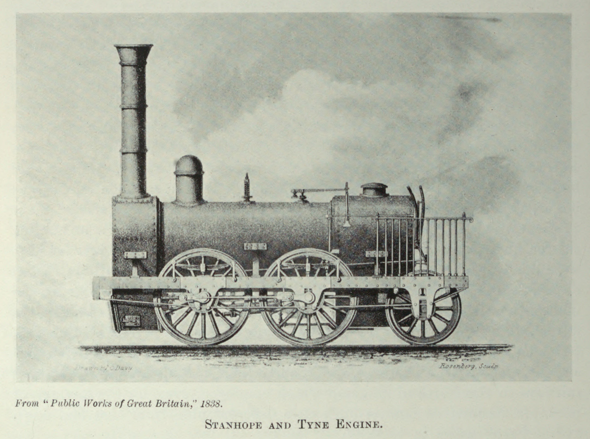 See list of illustrations in source pages ix to xvi Descriptions are associated with images, also check index for additional text